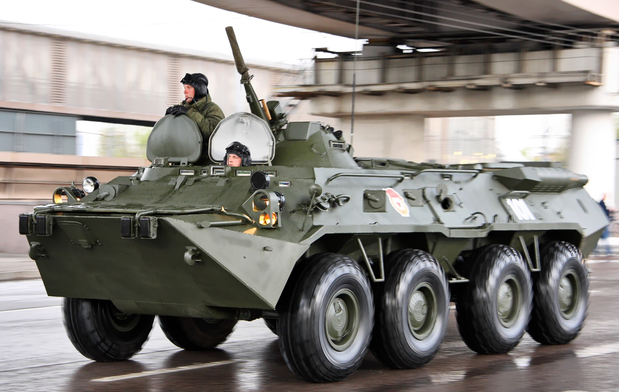 2011 Moscow Victory Day Parade